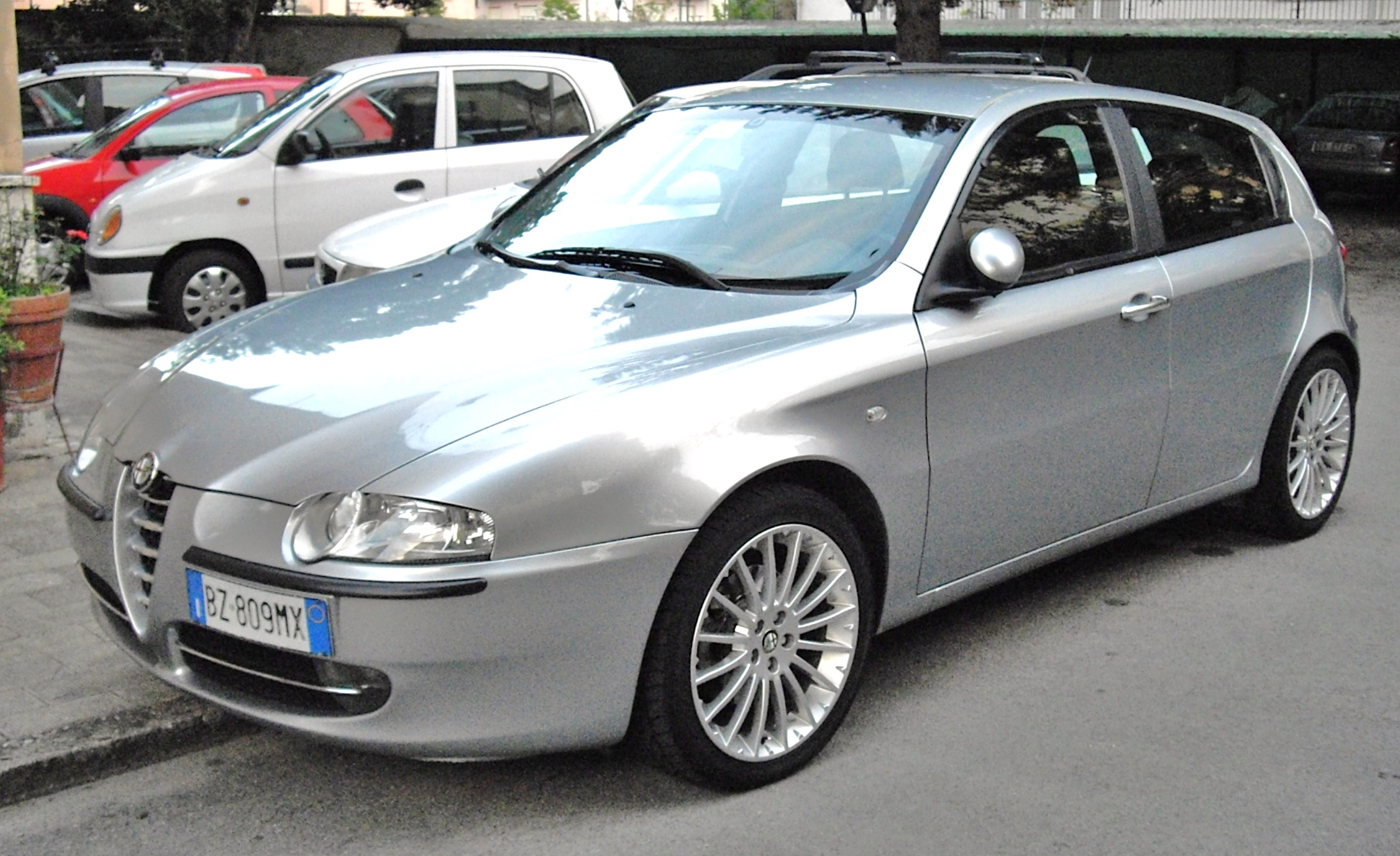 Alfa 147